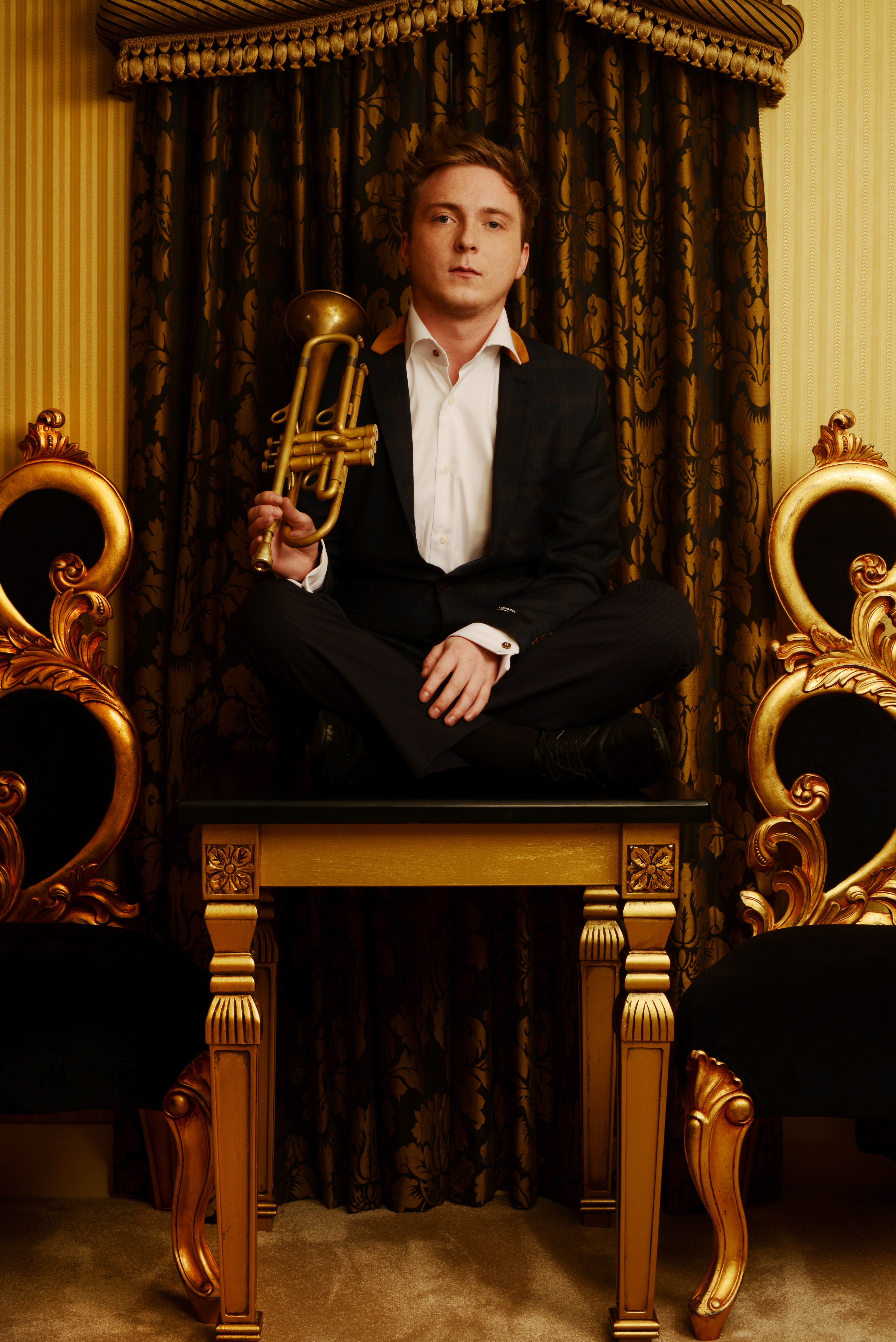 Legacy Official Photo Shoot